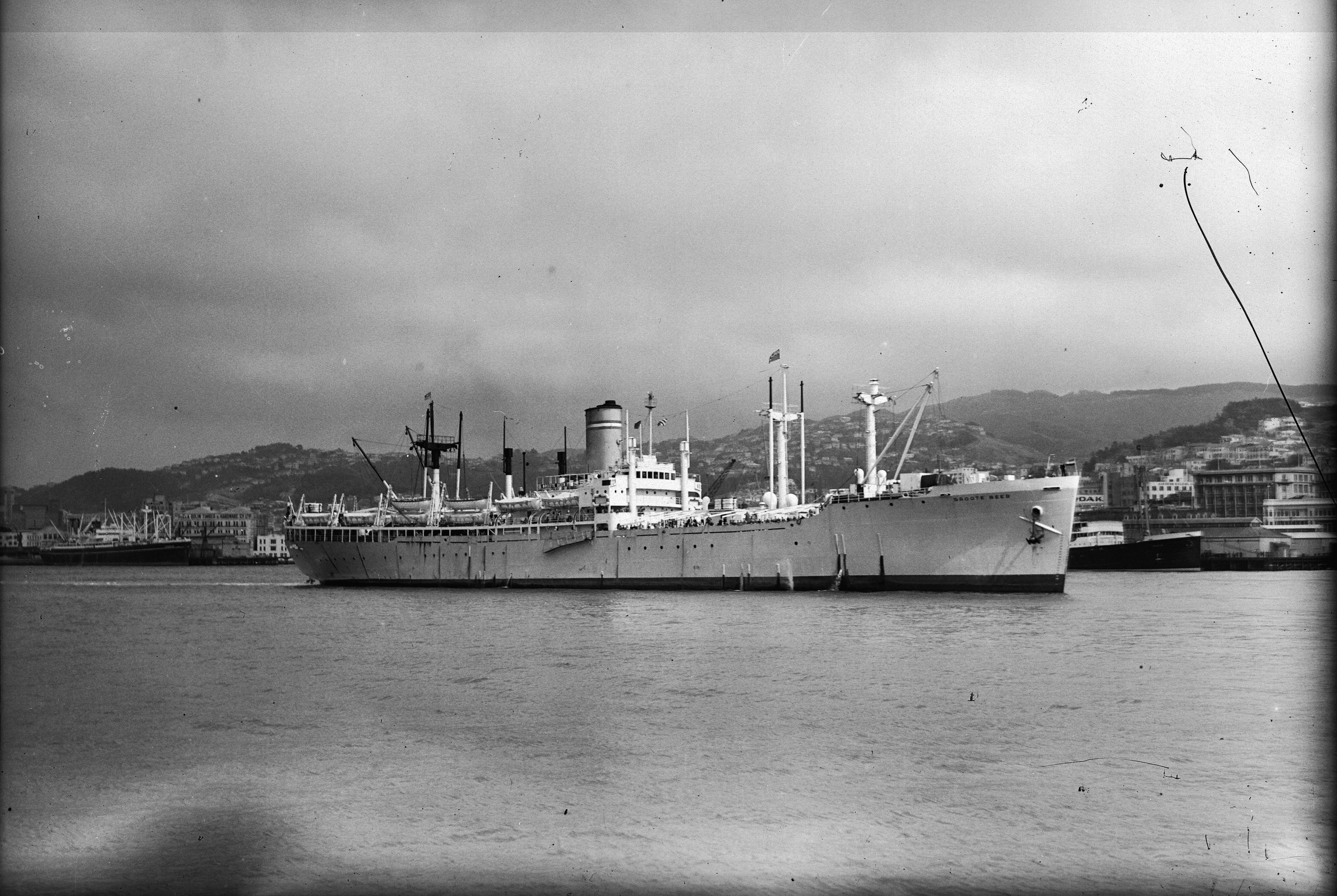 Photographer: William Hall Raine (1892-1955)[1] Ship Groote Beer, ca 1950s Reference number: 1/4-020634-G Glass negative Photographic Archive, Alexander Turnbull Library 1944 Named: COSTA RICA VICTORY for the U.S.Govt 1947 Sold to Netherlands Government Renamed: GROOTE BEER 1964 Sold to J.S.Latsis Renamed: MARIANNA IV 1970 Broken up at Eleusis